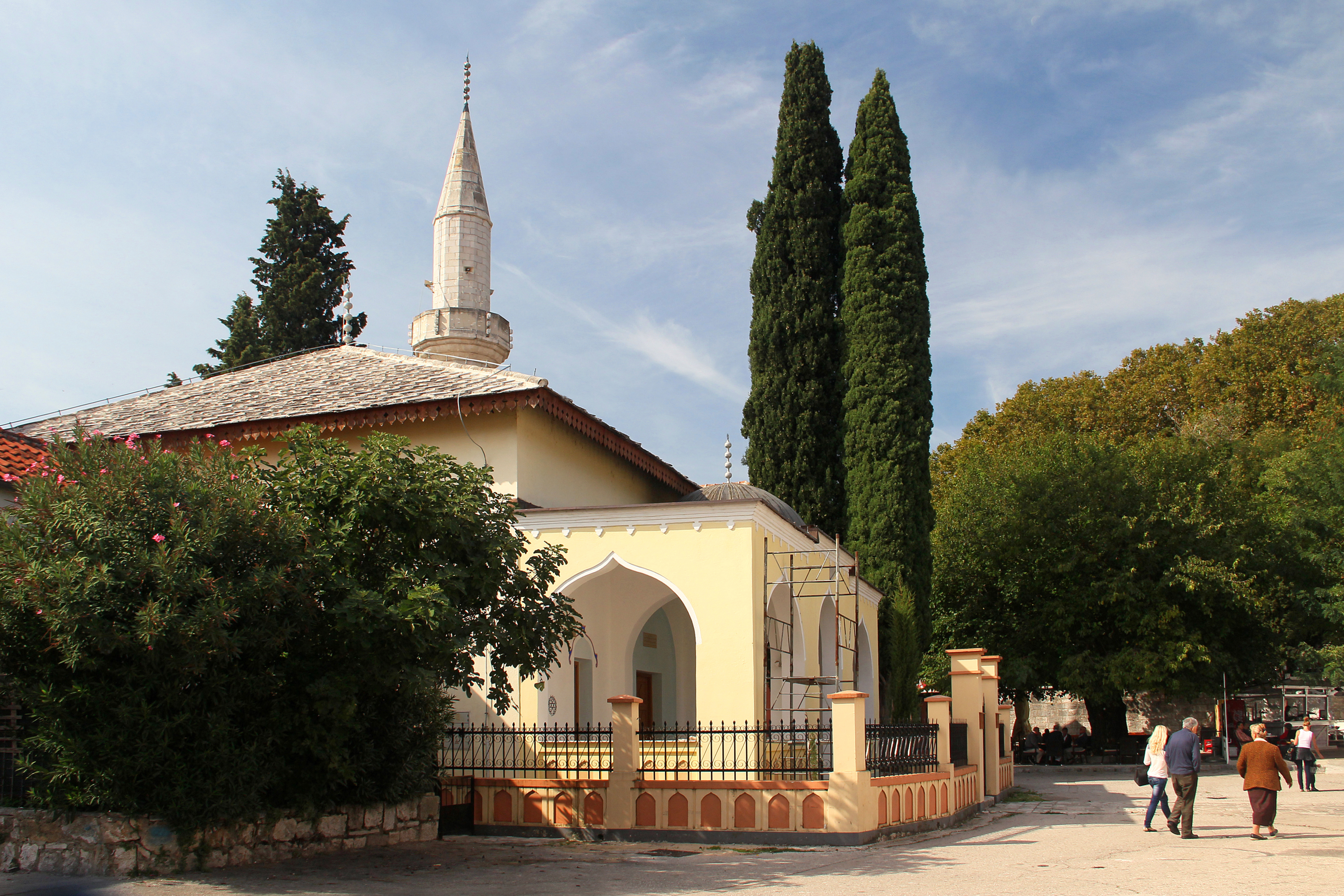 Osman-Pasha Mosque, Trebinje, Bosnia and Herzegovina